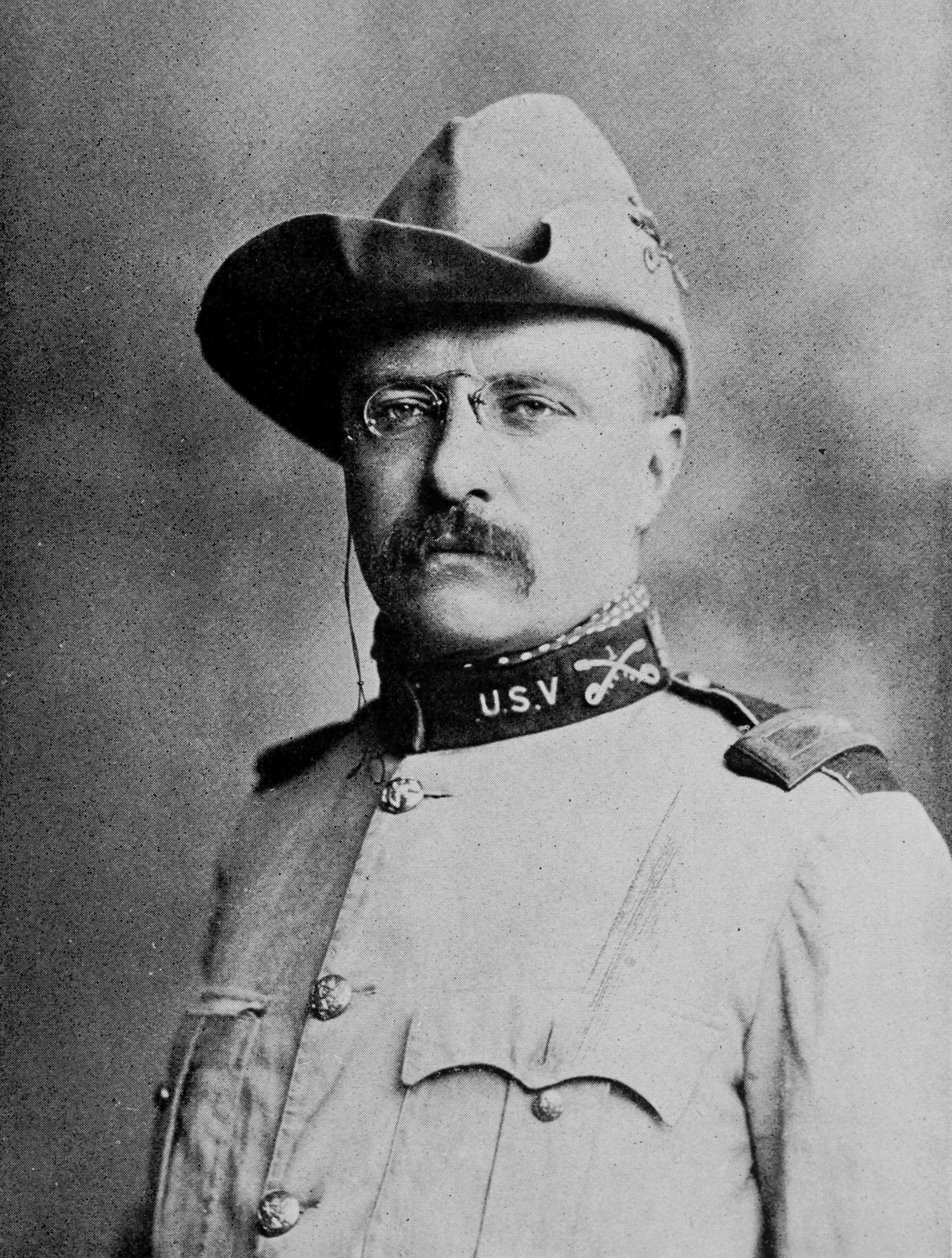 Theodore Roosevelt 1898 as Colonel during Spanish-American War